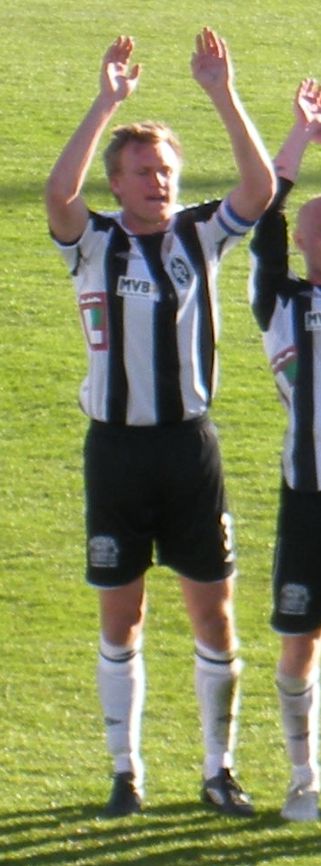 Linus Malmqvist, captain of BoIS, thanks the fans after a league game match against Sirius in 2009.